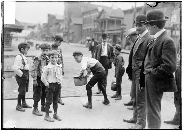 Image of Jewish men and boys standing on a sidewalk in Chicago, Illinois. Two boys are carrying pots of food for the Sabbath.